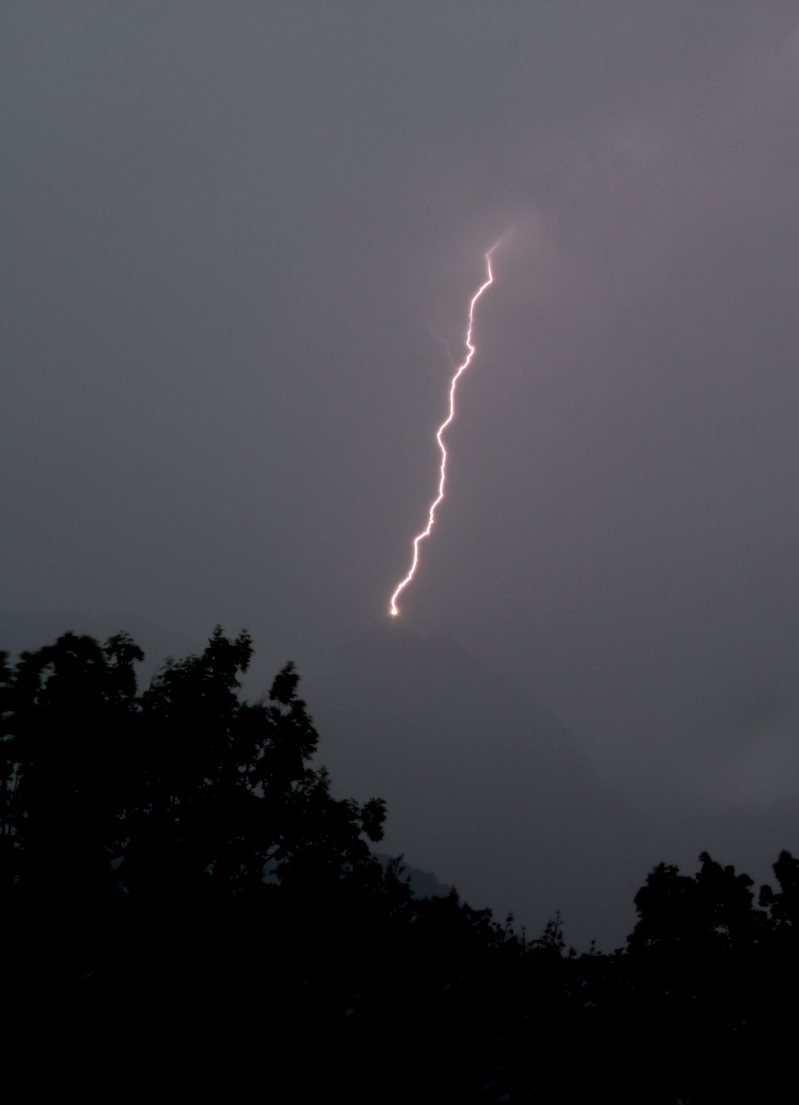 The lightning strike at the Giewont cross has lethal 46-year-old tourist from Britain.